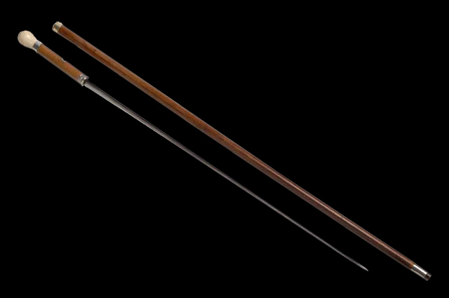 Wooden cane with a concealed sword inside.